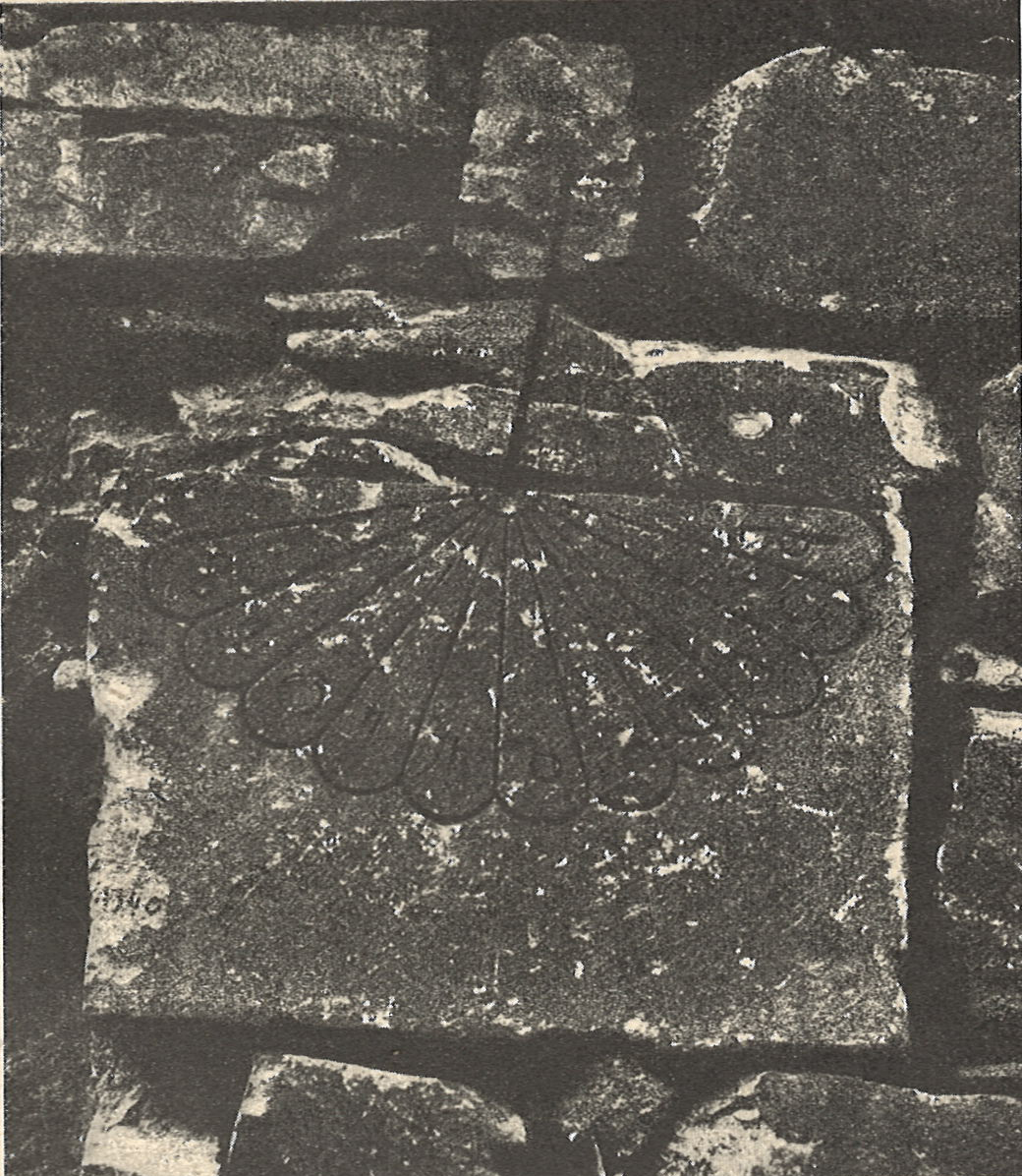 Dolisqana church. A solar clock on the southern wall (Marr, 1911)